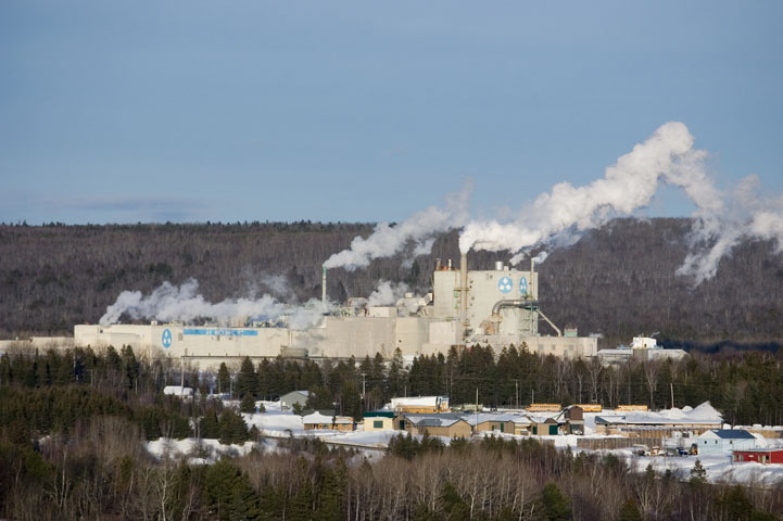 AV Nackawic and environs